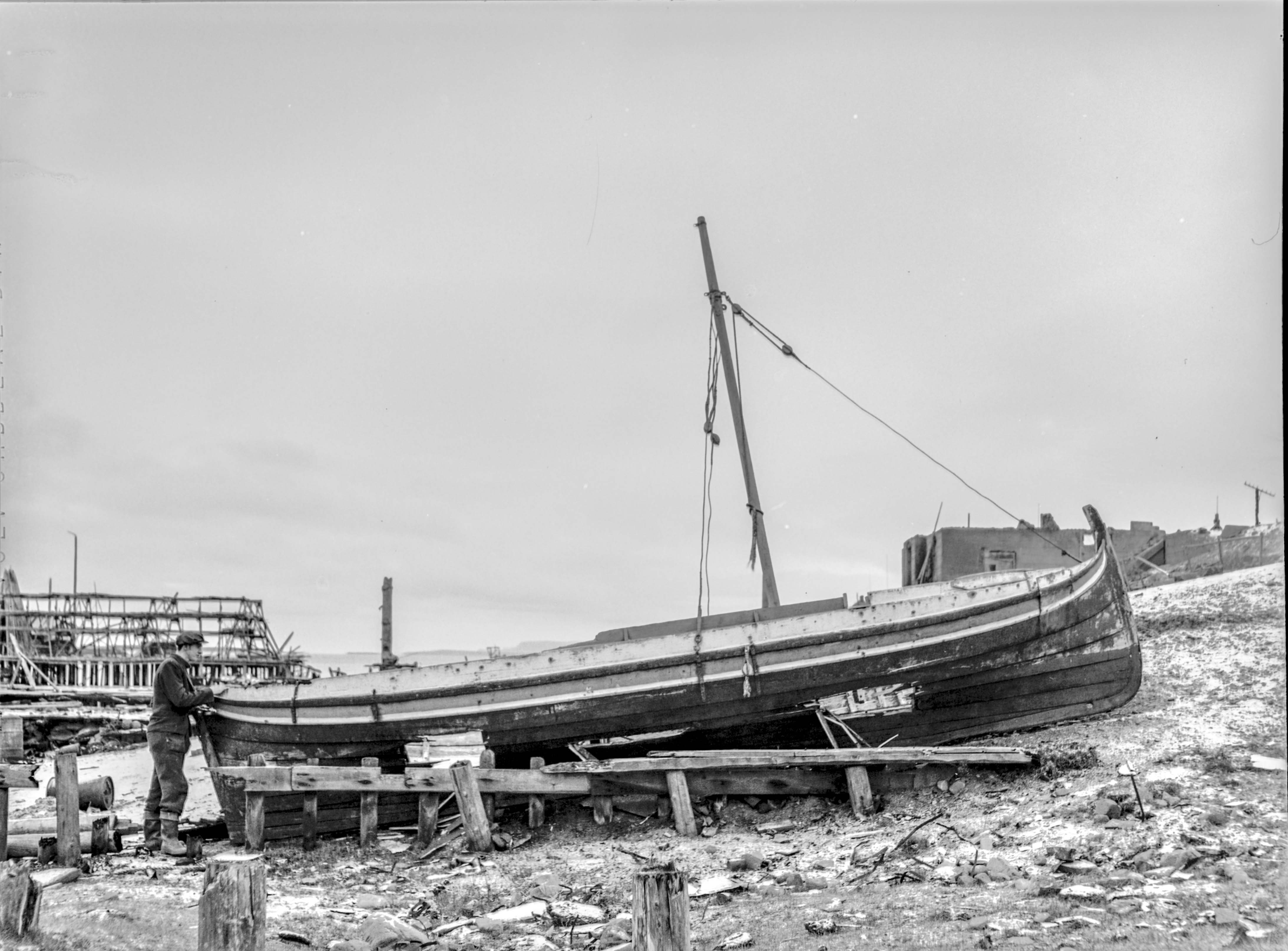 Photos from Flickr album "Evakueringen og frigjøringen av Finnmark" (The Evacuation and Liberation of Finnmark, 2015) by Riksarkivet (National Archives of Norway). Towards the end of World War II, with Operation Nordlicht, the Germans used the scorched earth tactic in Finnmark and northern Troms to halt the Red Army. As a consequence of this, few houses survived the war, and a large part of the population was forcefully evacuated further south (Tromsø was crowded), but many people avoided evacuation by hiding in caves and mountain huts and waited until the Germans were gone, then inspected their burned homes. There were 11,000 houses, 4,700 cow sheds, 106 schools, 27 churches, and 21 hospitals burned. There were 22,000 communications lines destroyed, roads were blown up, boats destroyed, animals killed, and 1,000 children separated from their parents. However, after taking the town of Kirkenes on 25 October 1944 (as the first town in Norway), the Red Army did not attempt further offensives in Norway. The town was handed over to Norway as the war ended. When war was over, more than 70,000 people were left homeless in Finnmark. The government imposed a temporary ban on residents returning to Finnmark because of the danger of landmines. The ban lasted until the summer of 1945 when evacuees were told that they could finally return home.